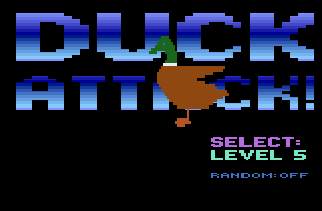 title screen from Atari 2600 game Duck Attack!